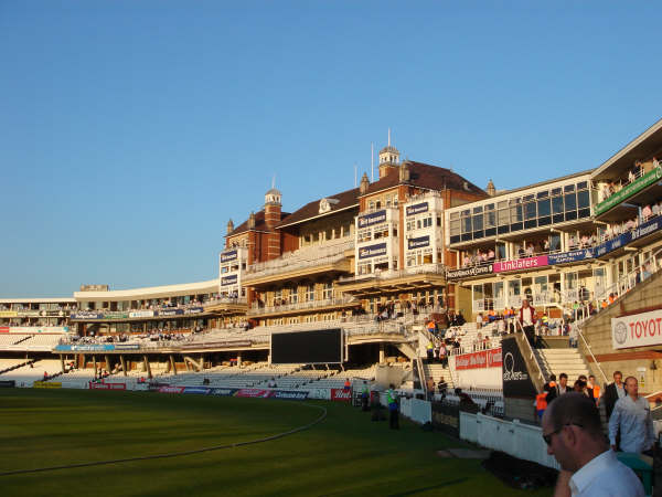 The Oval Pavilion in Kennington